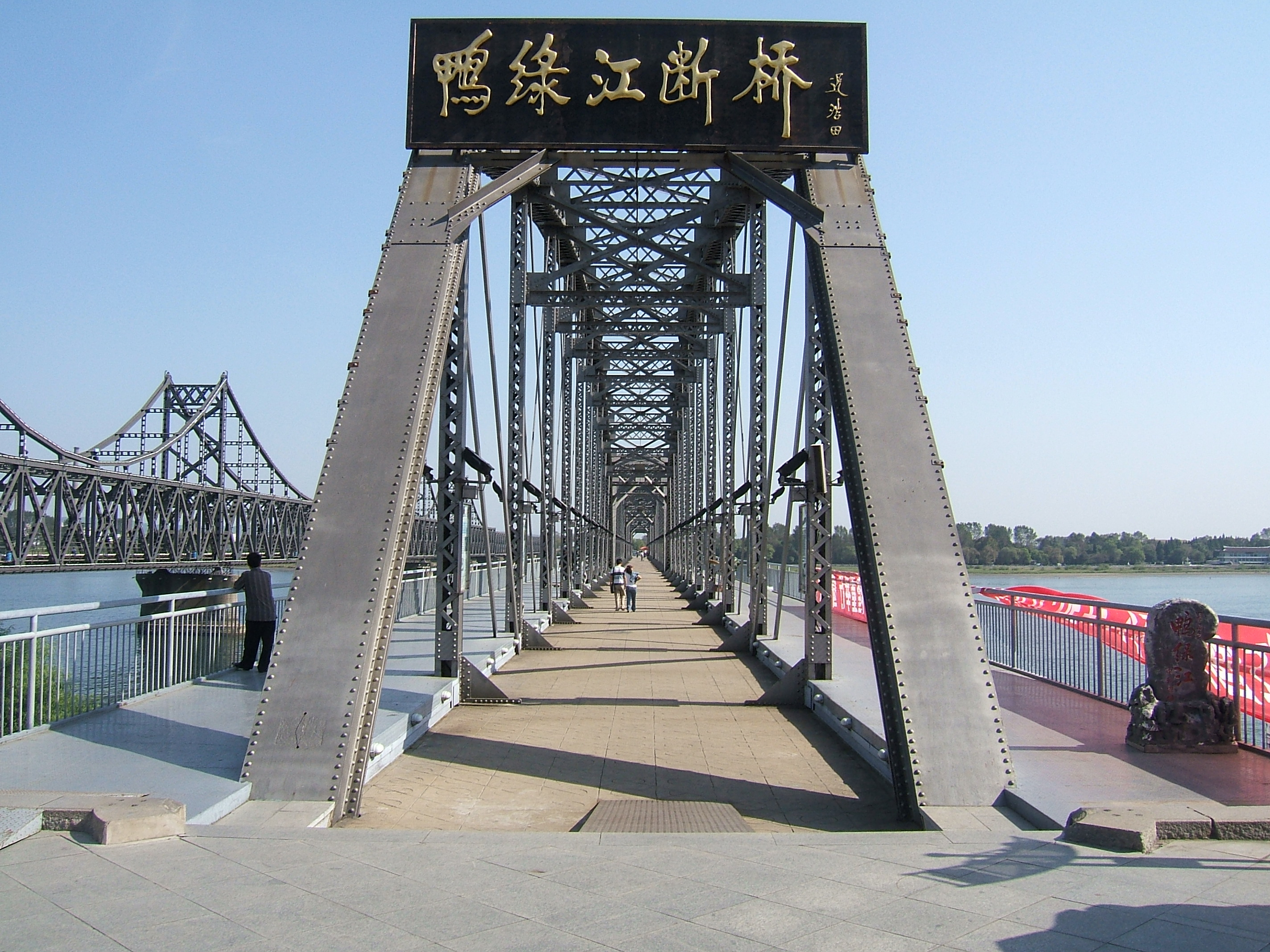 The old Yalu River Bridge. On the other side is North Korea, but the bridge was bombed by the USAF during the Korean War and no longer extends all the way across the river. At left is the parallel Sino-Korean Friendship Bridge. (Dandong/ N Korea)